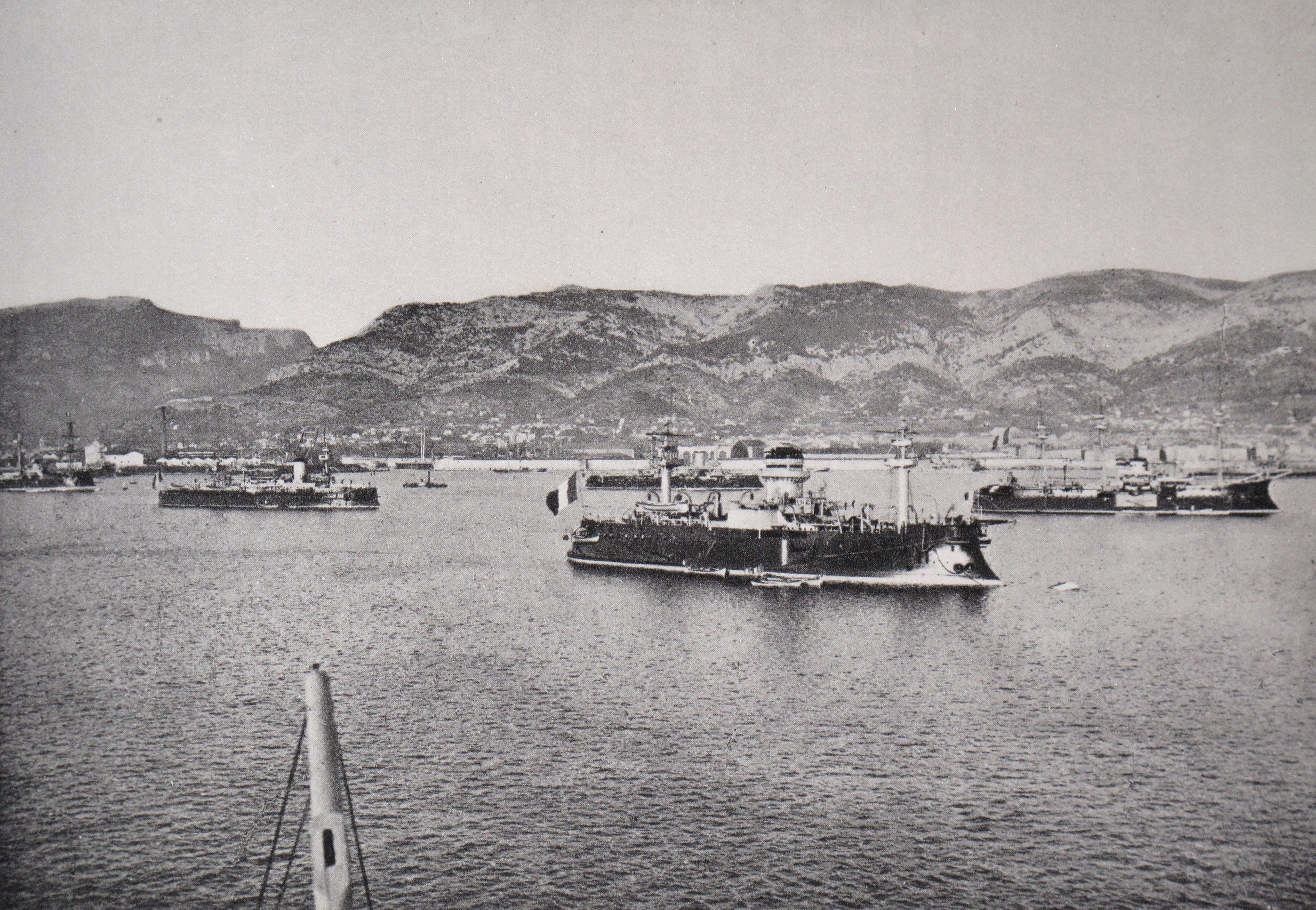 View of the French fleet in Toulon